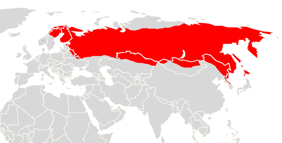 Laxmann's Shrew (Sorex caecutiens), range map, depending on the range map at IUCN red list